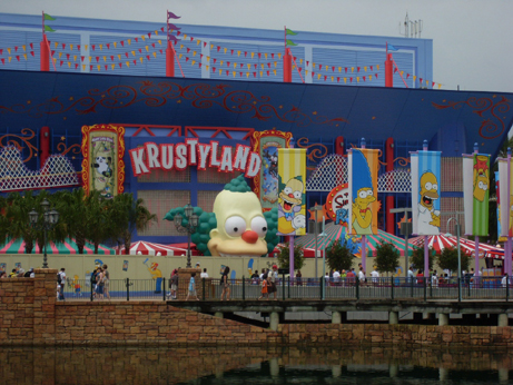 Wide shot of The Simpsons Ride's "Krustyland"